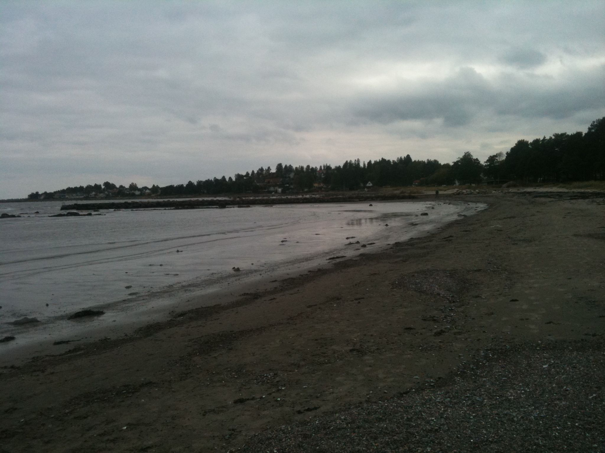 Skallevold beach in October